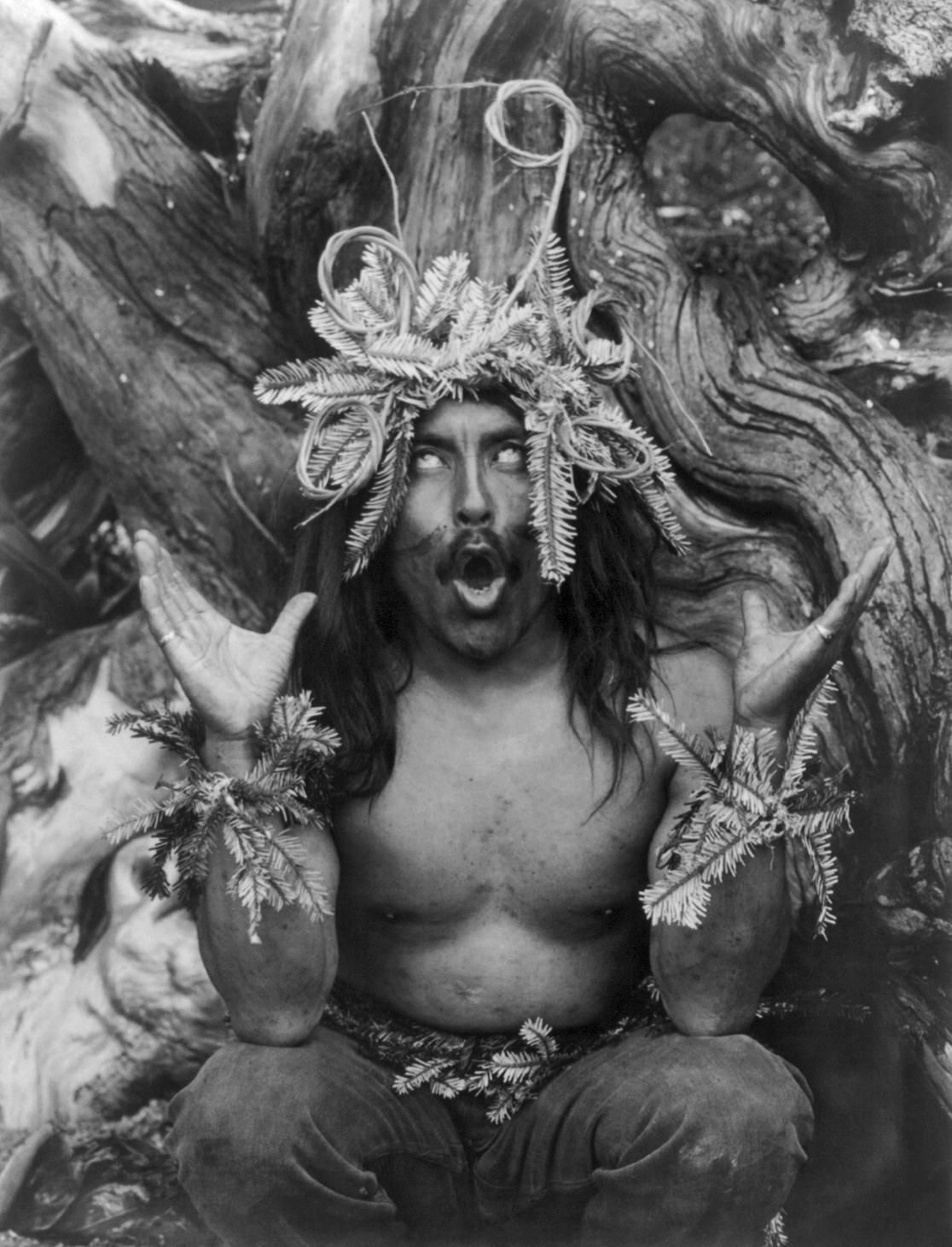 "Hamatsa emerging from the woods--Koskimo" "Hamatsa shaman, three-quarter length portrait, seated on ground in front of tree, facing front, possessed by supernatural power after having spent several days in the woods as part of an initiation ritual."